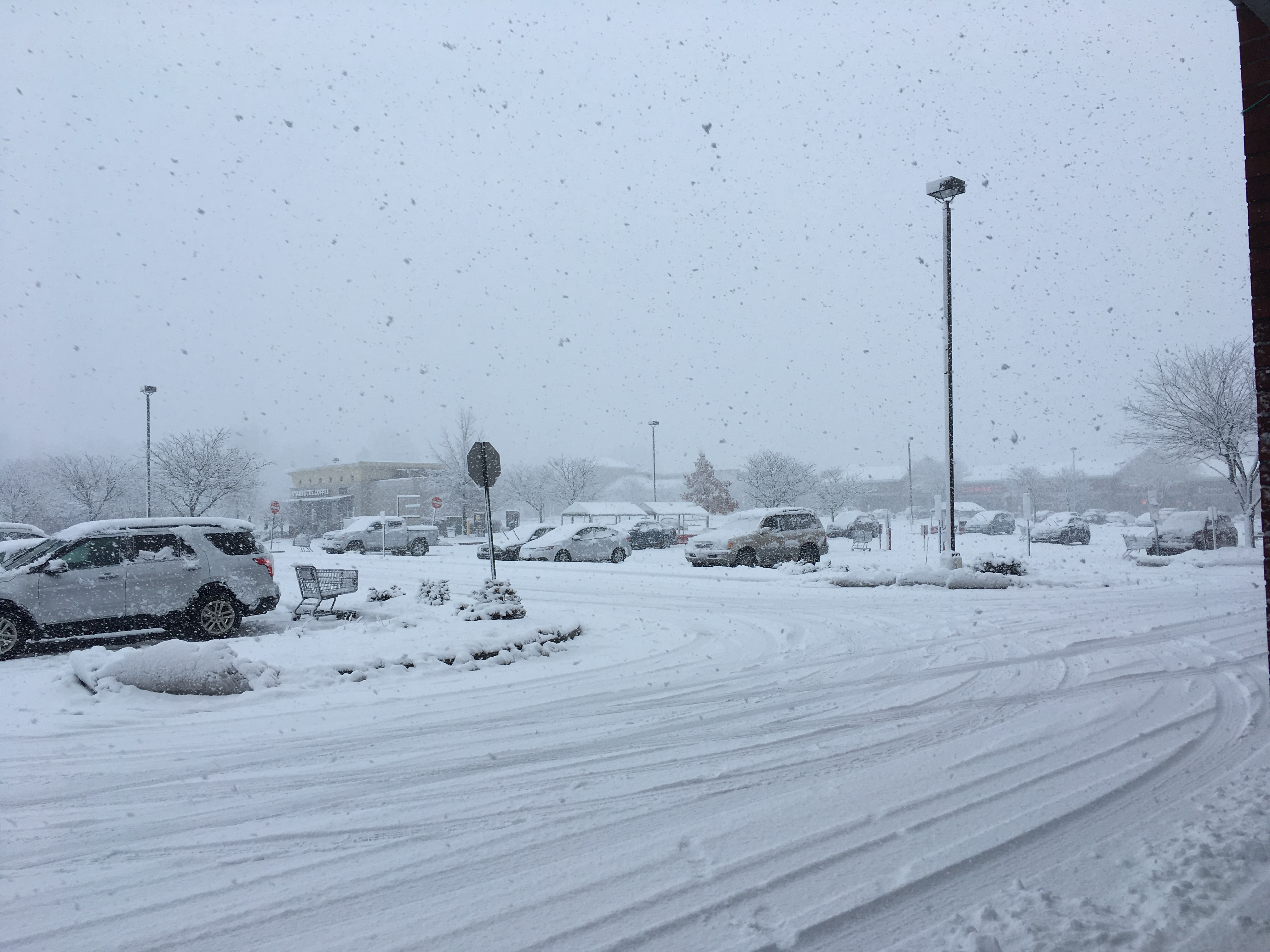 Snow from a nor'easter on March 7, 2018 at the Marketplace at Huntingdon Valley shopping center in Upper Moreland Township, Pennsylvania